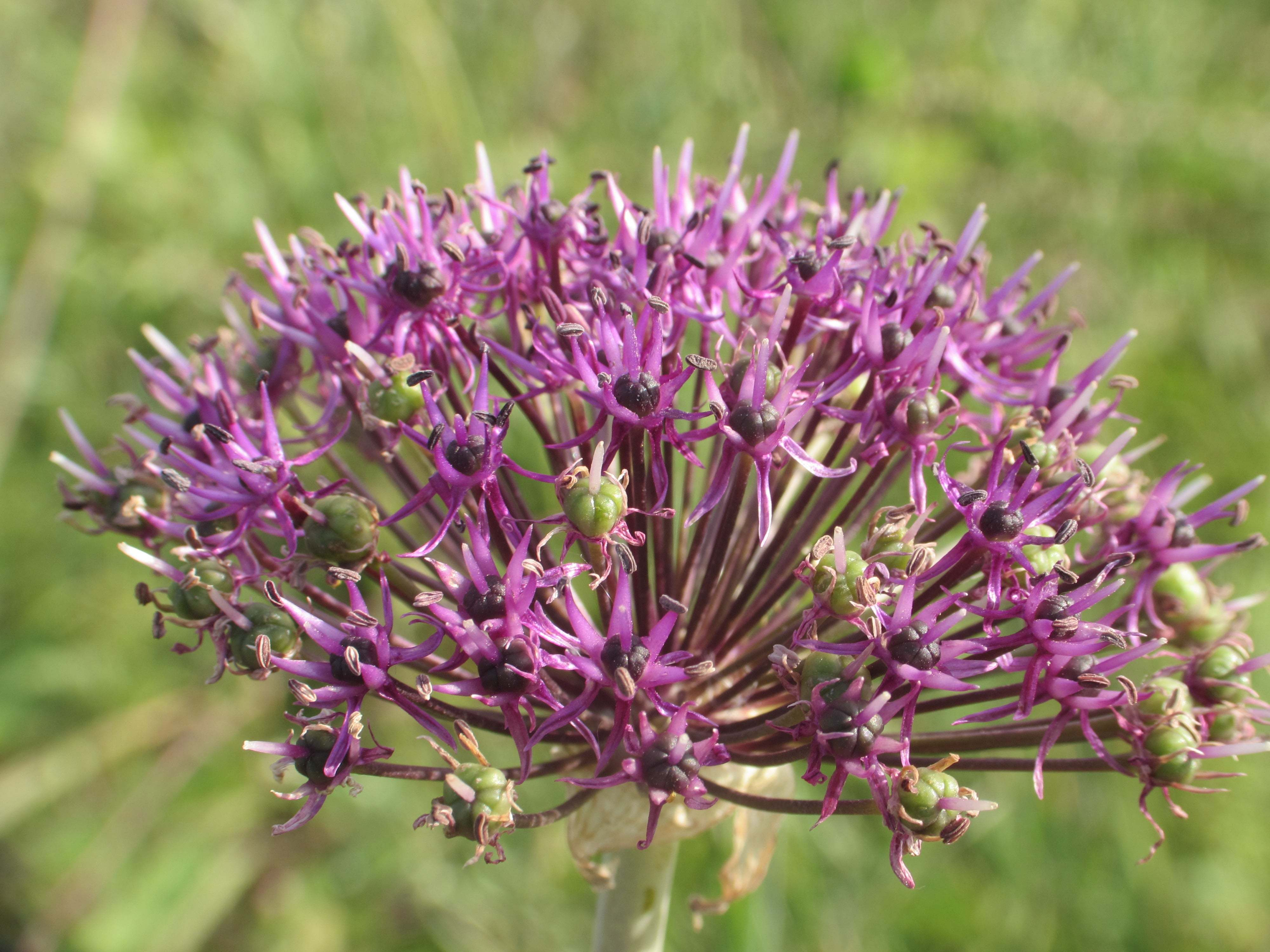 Allium cyrilli flower